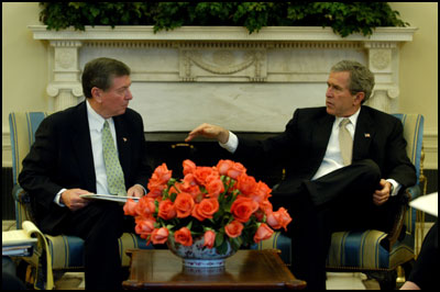 President George W. Bush meets with Attorney General John Ashcroft in the Oval Office Tuesday, March 11, 2003. White House photo by Eric Draper